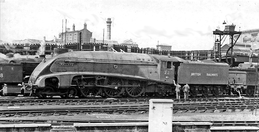 The 'World's Fastest Steam Locomotive' , 'Mallard' with a transitional number, at King's Cross in 1948 View westward to 'Bottom' Locomotive Yard from York Road platform. 'Mallard', which had achieved its record of 126 mph on 3/7/38, was one of three Gresley A4 Pacifics chosen for the 1948 Exchange Trials comparing the performance of the best engines of the Big Four Railways on each other's lines soon after Nationalisation. Here just before the trials it is freshly painted in garter-blue with its new number '22' in stainless steel and an 'E' (for Eastern) painted above the number. On the left is one of the N2 0-6-2Ts and on the right an N1 0-6-2T - the work-horses of suburban and empty stock duties.